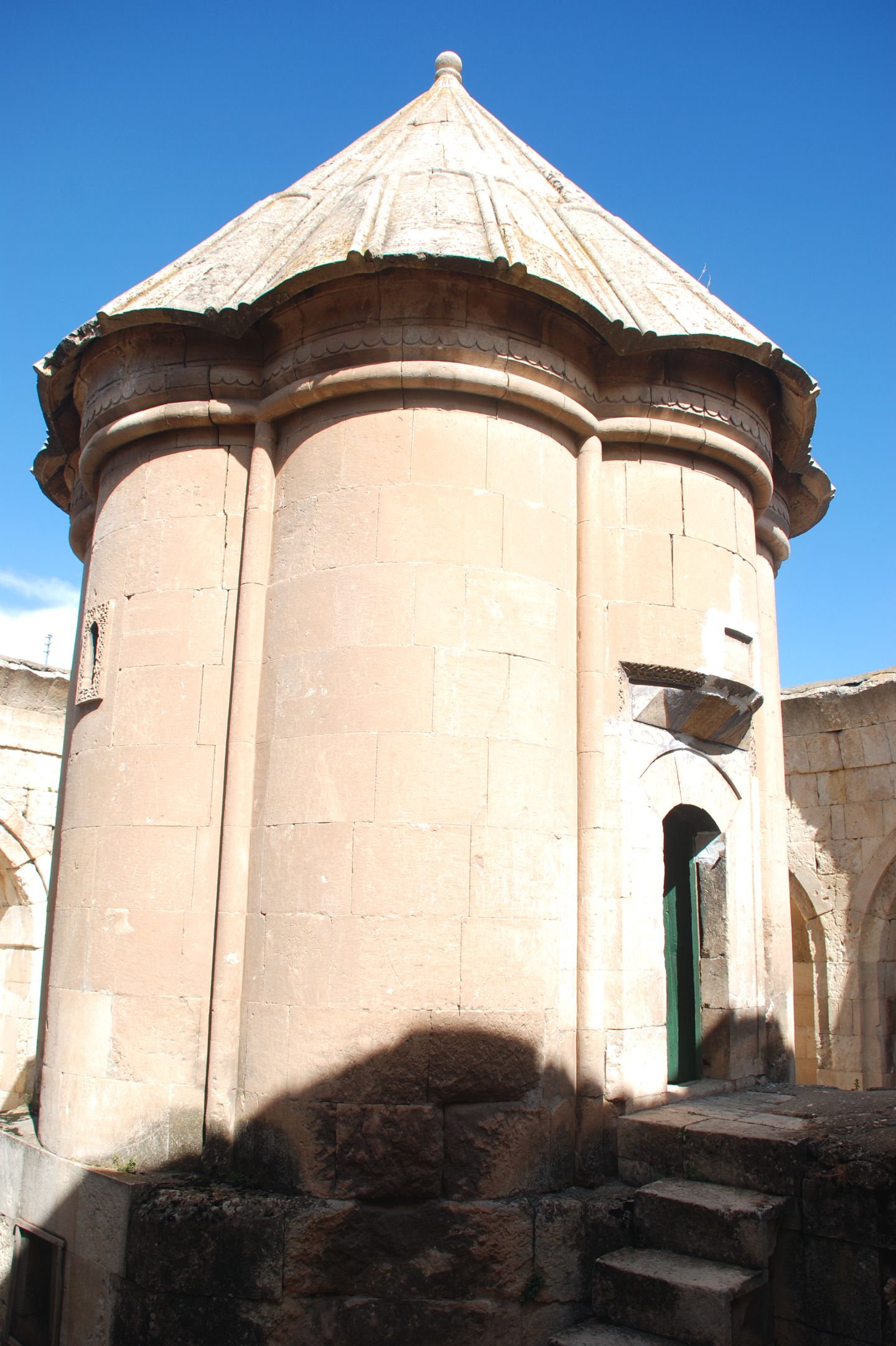 Tercan, Turkey, Türbe, Mama Hatun Kümbeti